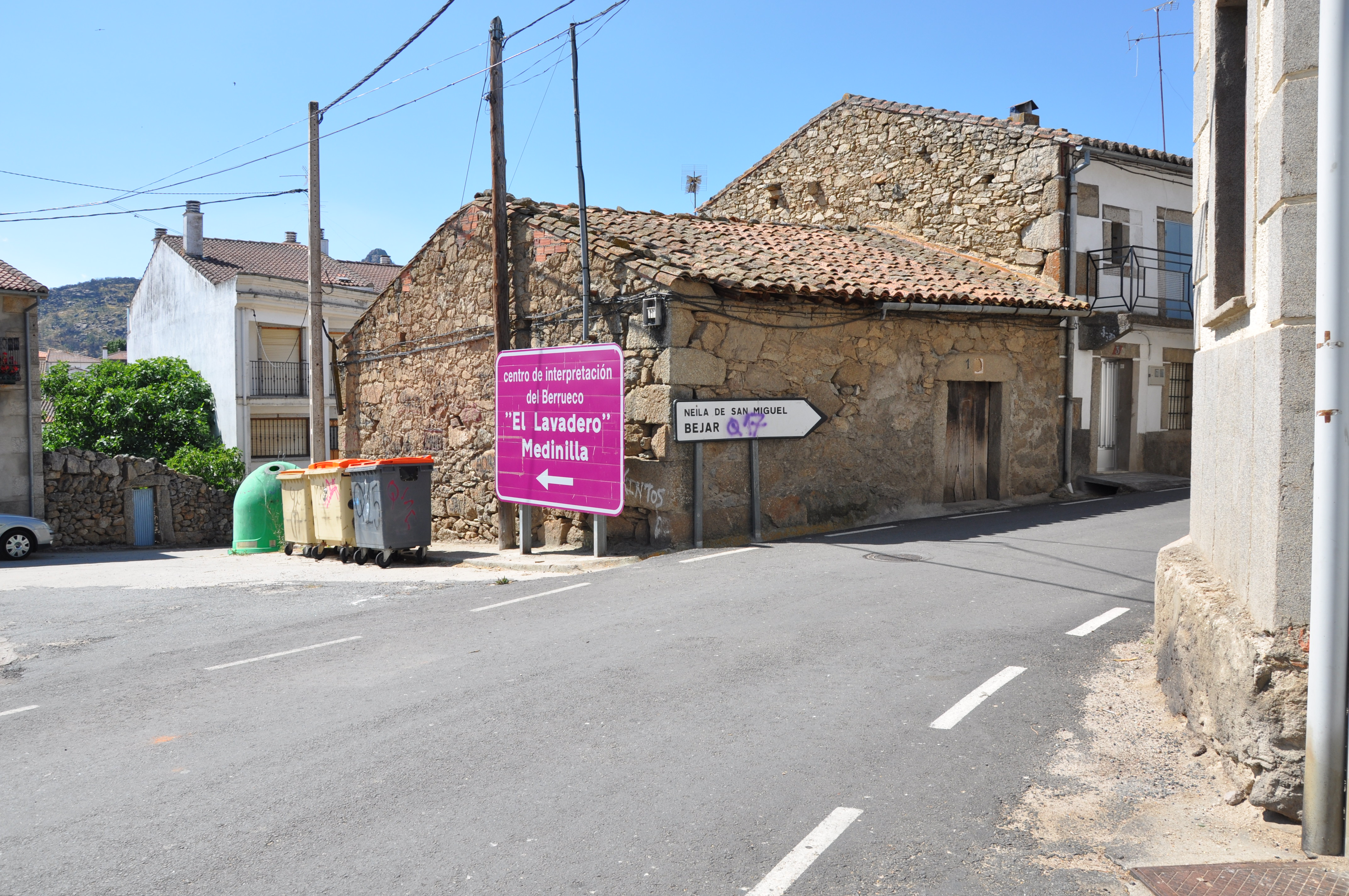 Direction signs in Medinilla, Ávila, Spain